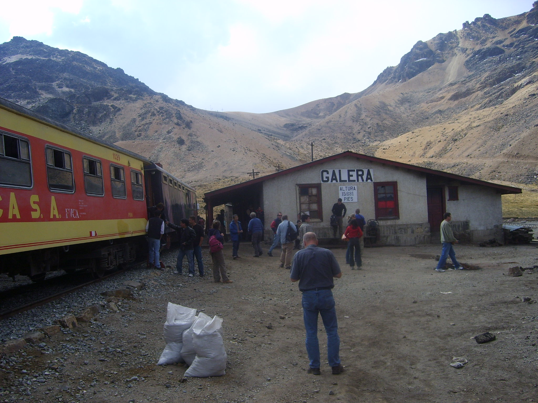 Galera station on a railroad from Lima to Huancayo in Peru; the highest point of this line.